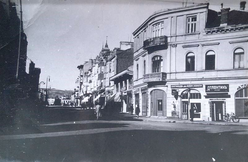 Varna. Photos of "Knyaz Boris" boulevard.